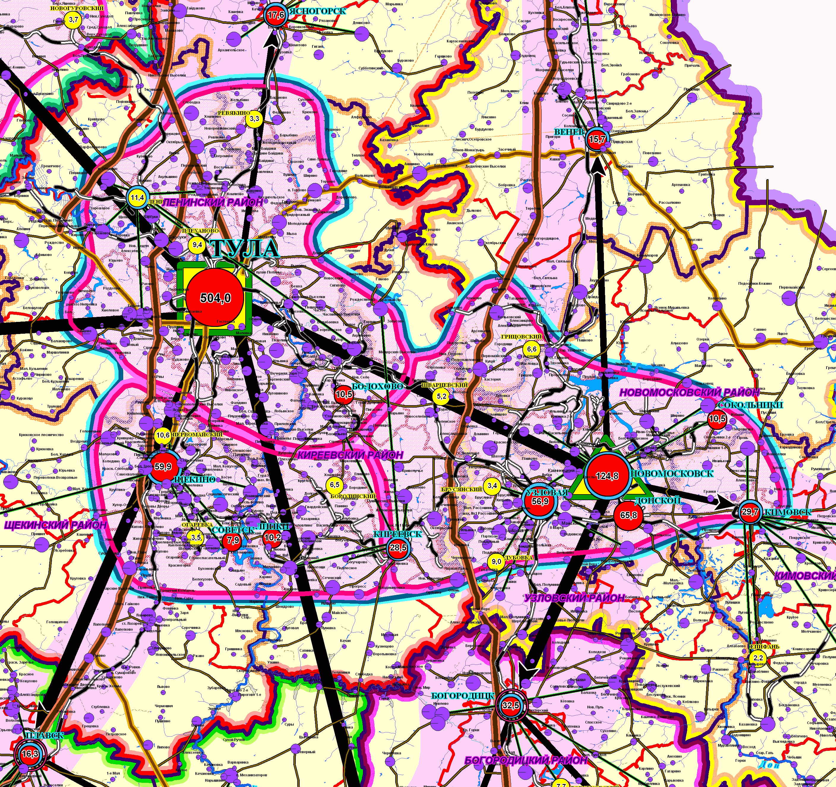 Tula oblast, Russia, regional planning map. Tula-Novomoskovs Urban Agglomeration extracted. PNG version with better compression ratio